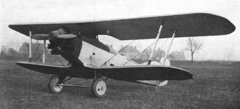 Gloster Goring with wheeled undercariage, 1928